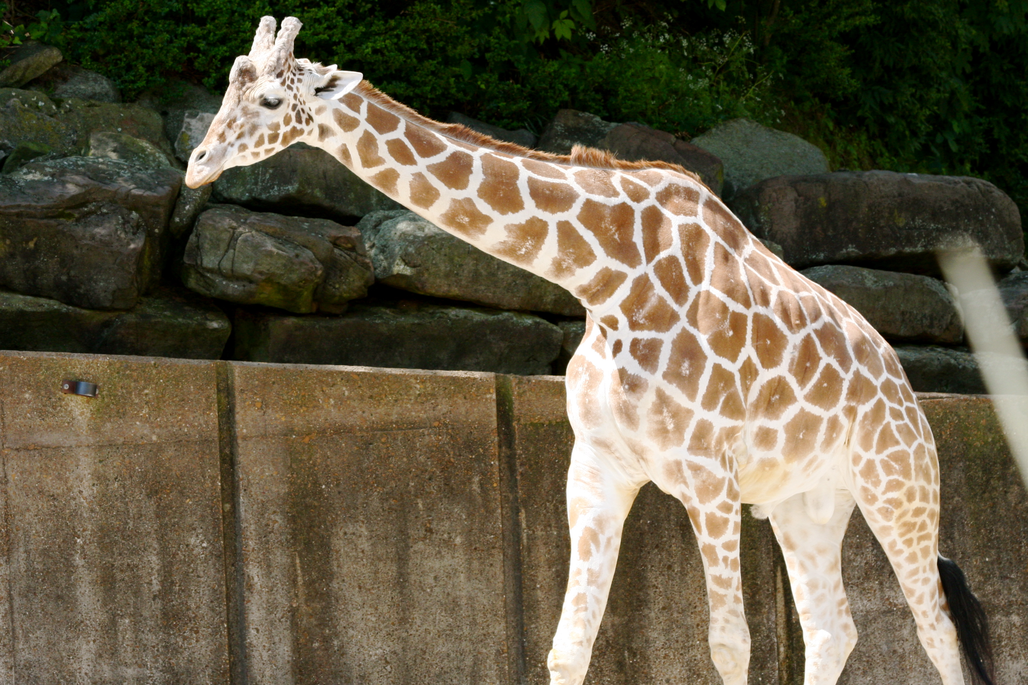 A giraffe at the Memphis Zoo.